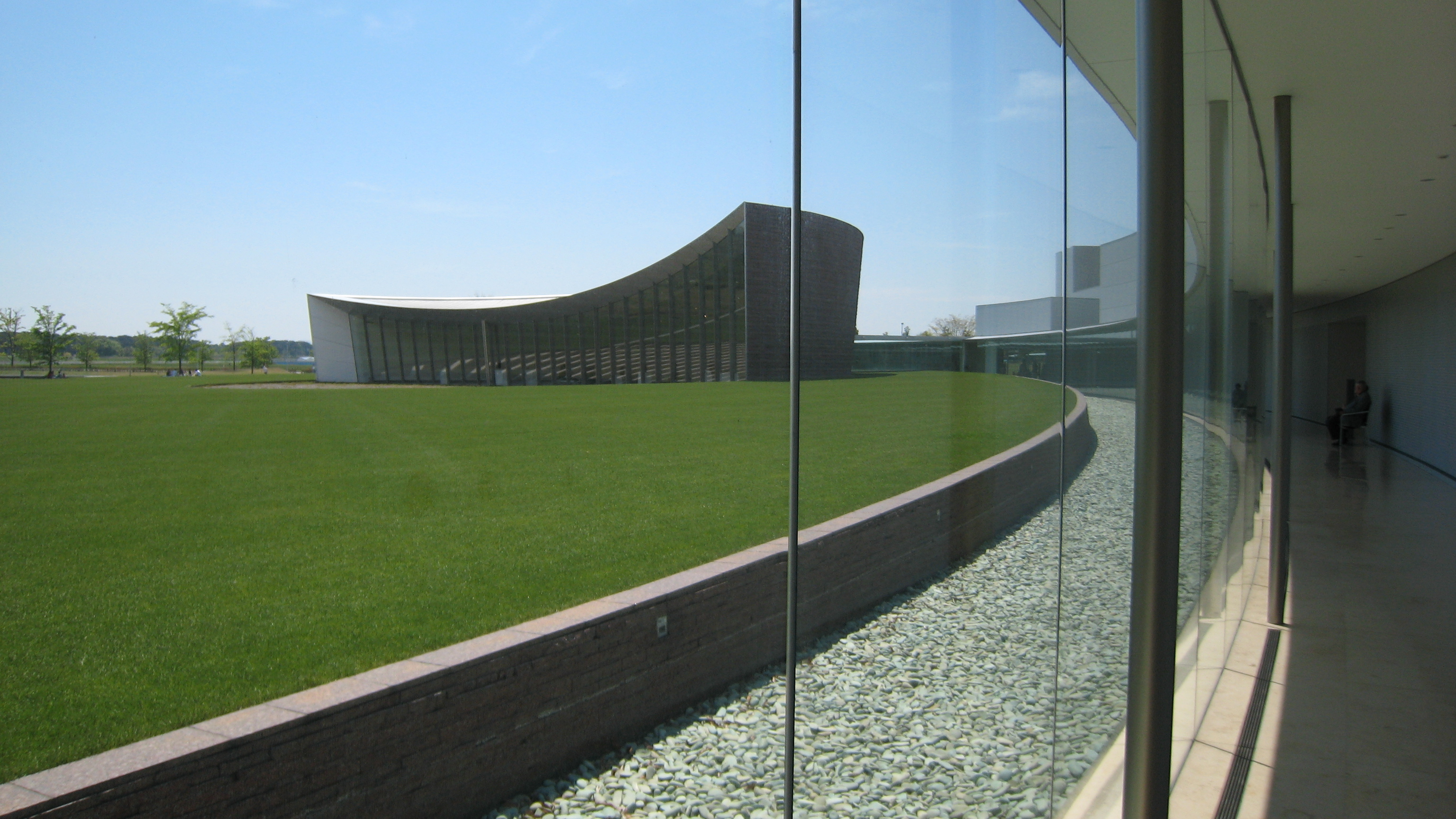 Gunma Museum of Art,Tatebayashi in Tatebayashi,Gunma Prefecture,Japan